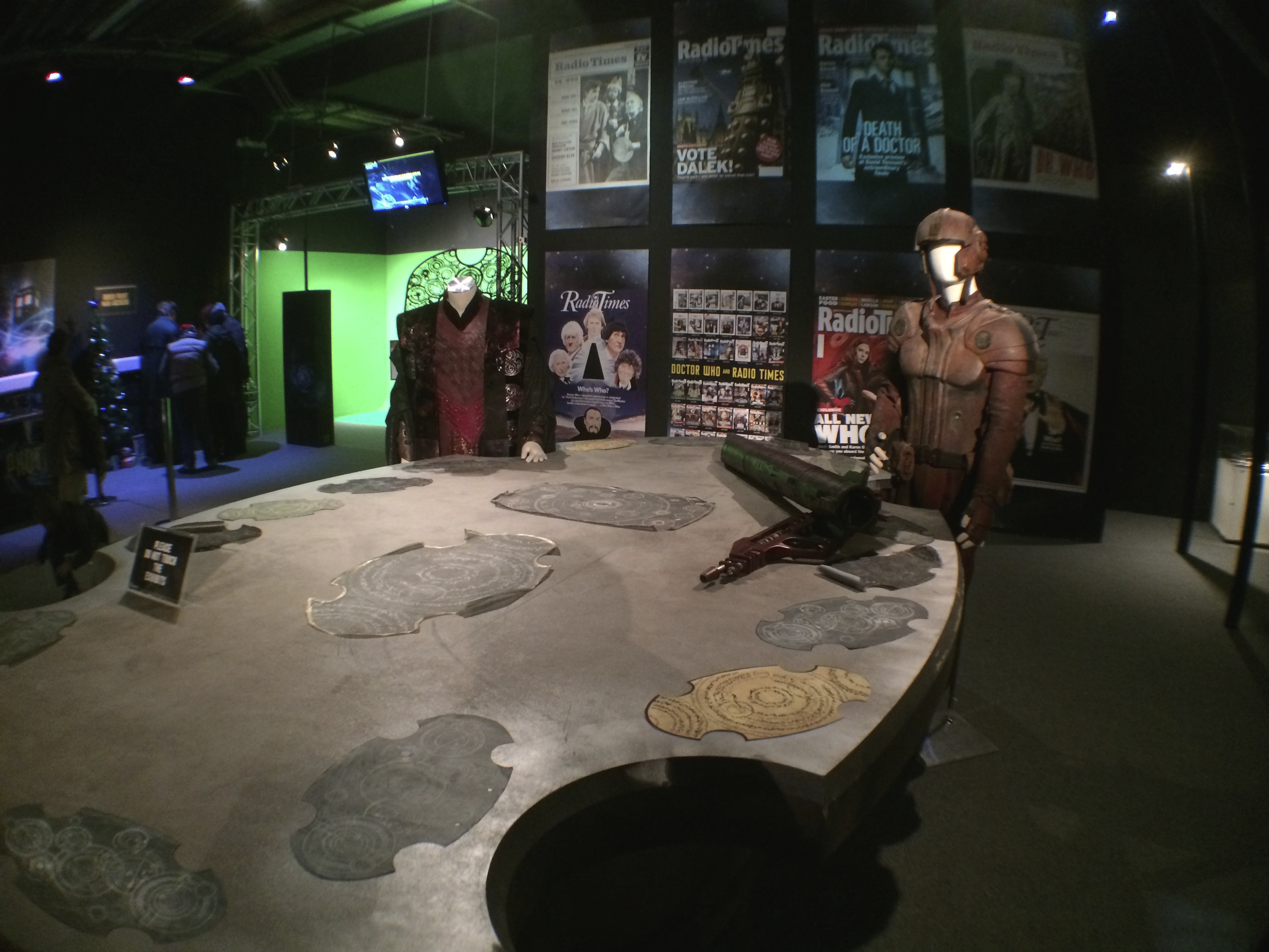 Photo taken at the "BBC Doctor Who Experience" in Cardiff, Wales. Doctor Who Experience